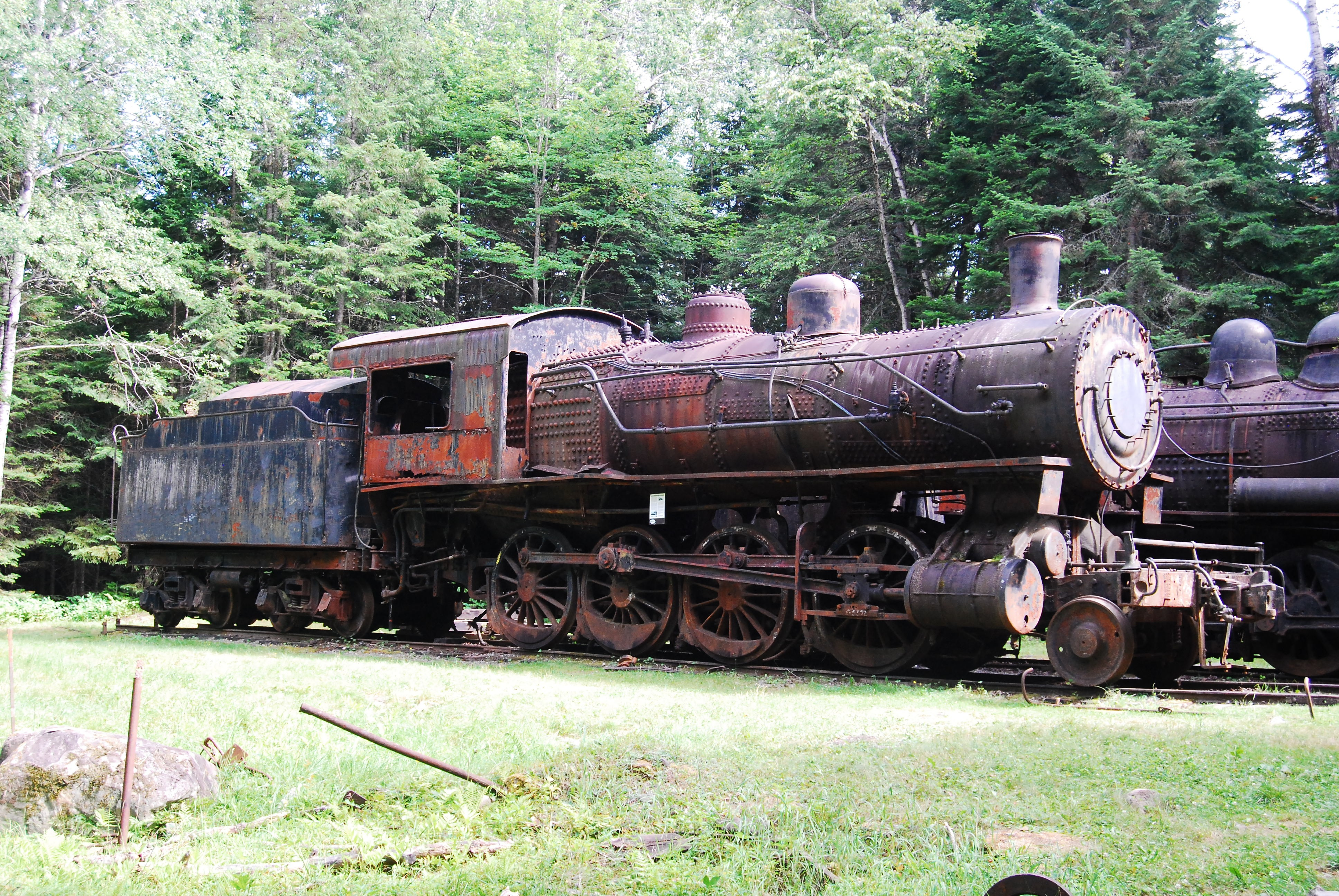 Eagle Lake and West Branch Railroad Consolidation #2, abandoned in Maine North Woods. Location 46.322445, -69.374989